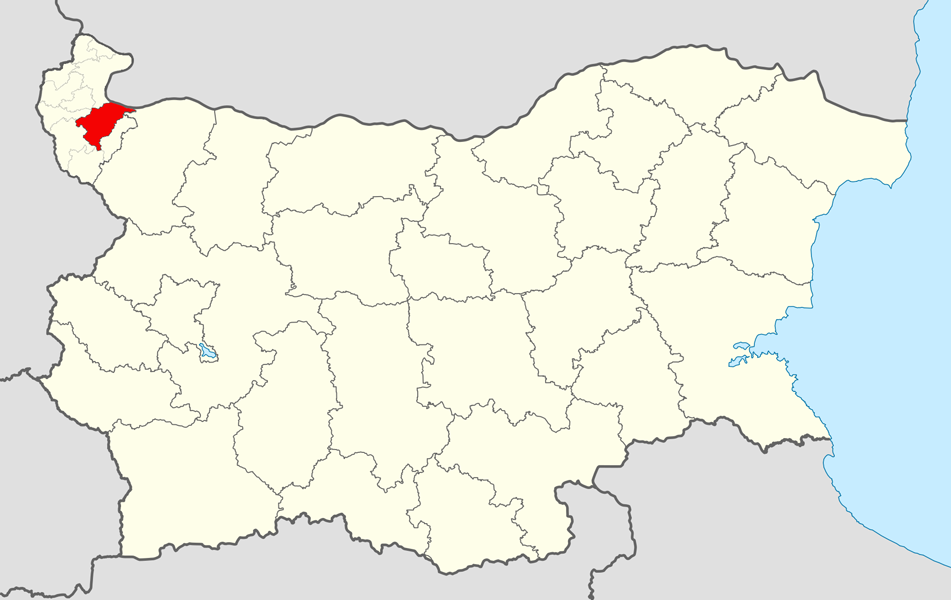 Location map of Dimovo Municipality within Bulgaria and Vidin Province. Equirectangular projection, N/S stretching 130 %. Geographic limits of the map: N: 44.4° N S: 41.1° N W: 22.1° E E: 28.9° E